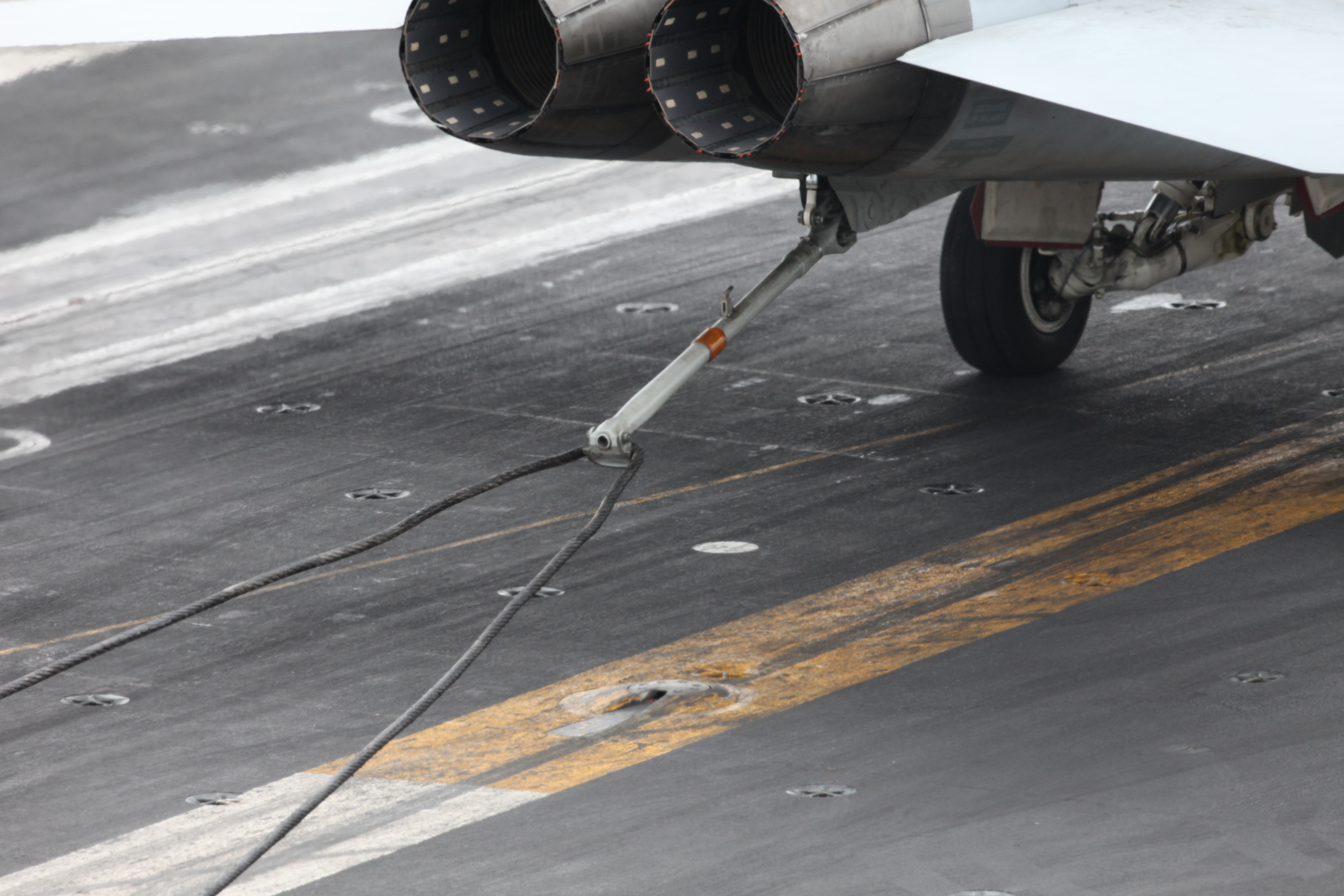 Caught the wire!